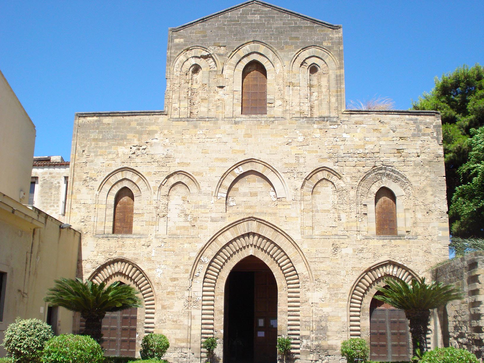 Magione - facade